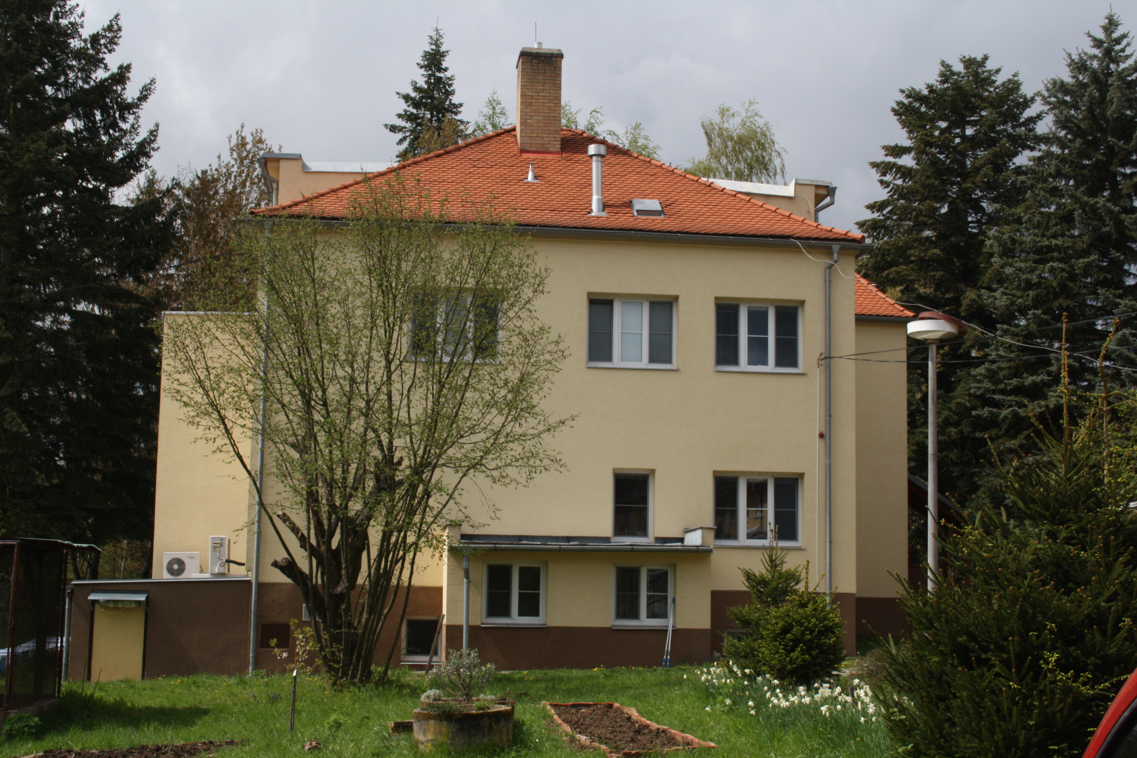 Department of Population Biology of Institute of Vertebrate Biology of Academy of Sciences of the Czech Republic head building in Studenec, Třebíč District.